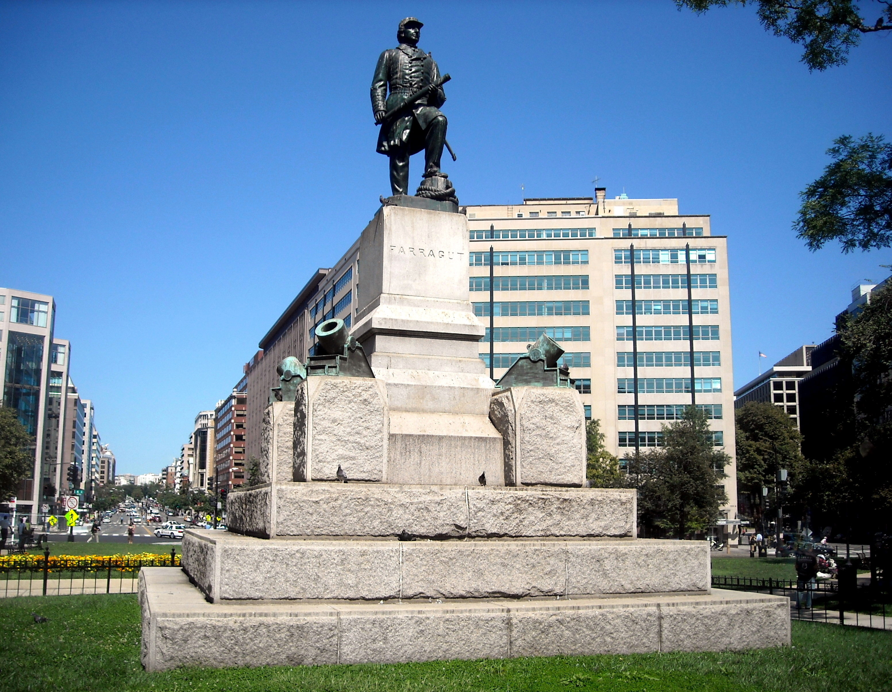 The David G. Farragut Memorial, located in Farragut Square, an urban park and city square in downtown Washington, D.C., that is administered by the National Park Service. The bronze statue honoring Admiral David Farragut was sculpted by Vinnie Ream, and dedicated on April 25, 1881. It is one of seventeen Civil War statuary in Washington, D.C., that were collectively listed on the National Register of Historic Places on September 20, 1978. The 1000–1300 blocks of Connecticut Avenue, N.W. (facing north towards Dupont Circle), are visible in the background.